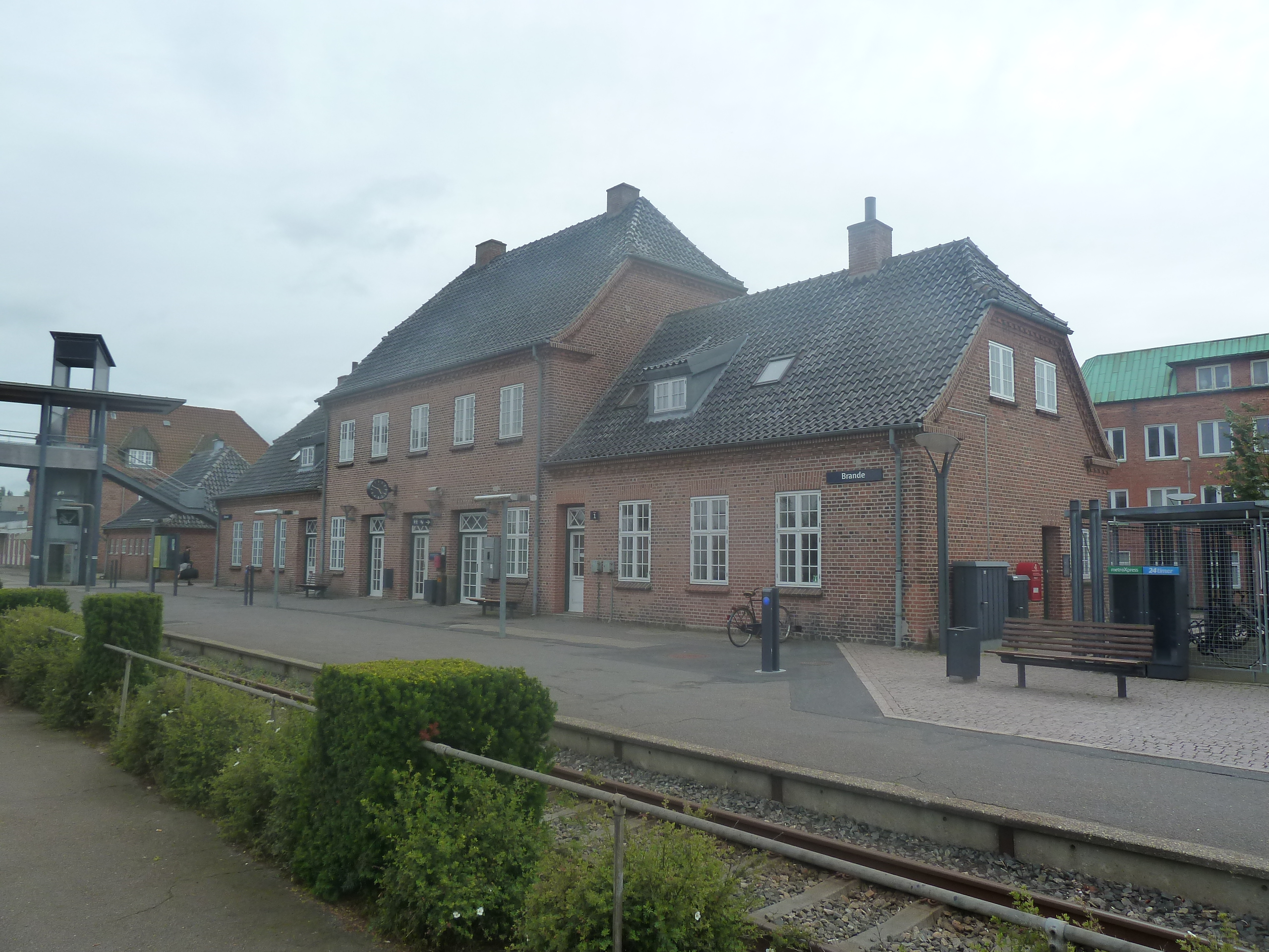 Brande Station in Middle Jutland in Denmark.